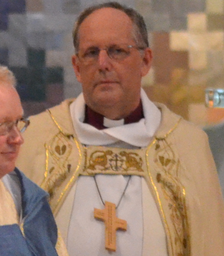 Installation of the Bishops of Barking and Colchester